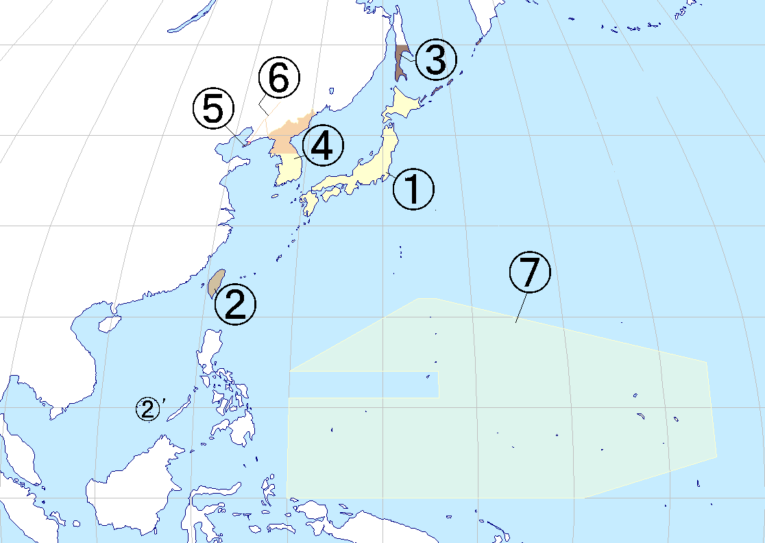 Map of Japan under Allied occupation Japanese archipelago, placed under the authority of the Supreme Commander of the Allied Powers, effective 1945-1952 (with the exceptions of Iwo Jima, under US authority until 1968, and Okinawa, under US authority until 1972) Japanese Taiwan and the Spratly Islands, placed under the authority of the Republic of China Karafuto Prefecture and the Kuril Islands, placed under the authority of the Soviet Union Japanese Korea south of the 38th parallel north, placed under the authority of the United States Army Military Government in Korea, granted independence in 1948 as South Korea Kwantung Leased Territory, occupied by the Soviet Union 1945-1955, returned to China in 1955 Japanese Korea north of the 38th parallel north, placed under the authority of the Soviet Civil Administration, granted independence in 1948 as North Korea South Pacific Mandate, occupied by the United States 1945-1947, converted into the Trust Territory of the Pacific Islands in 1947